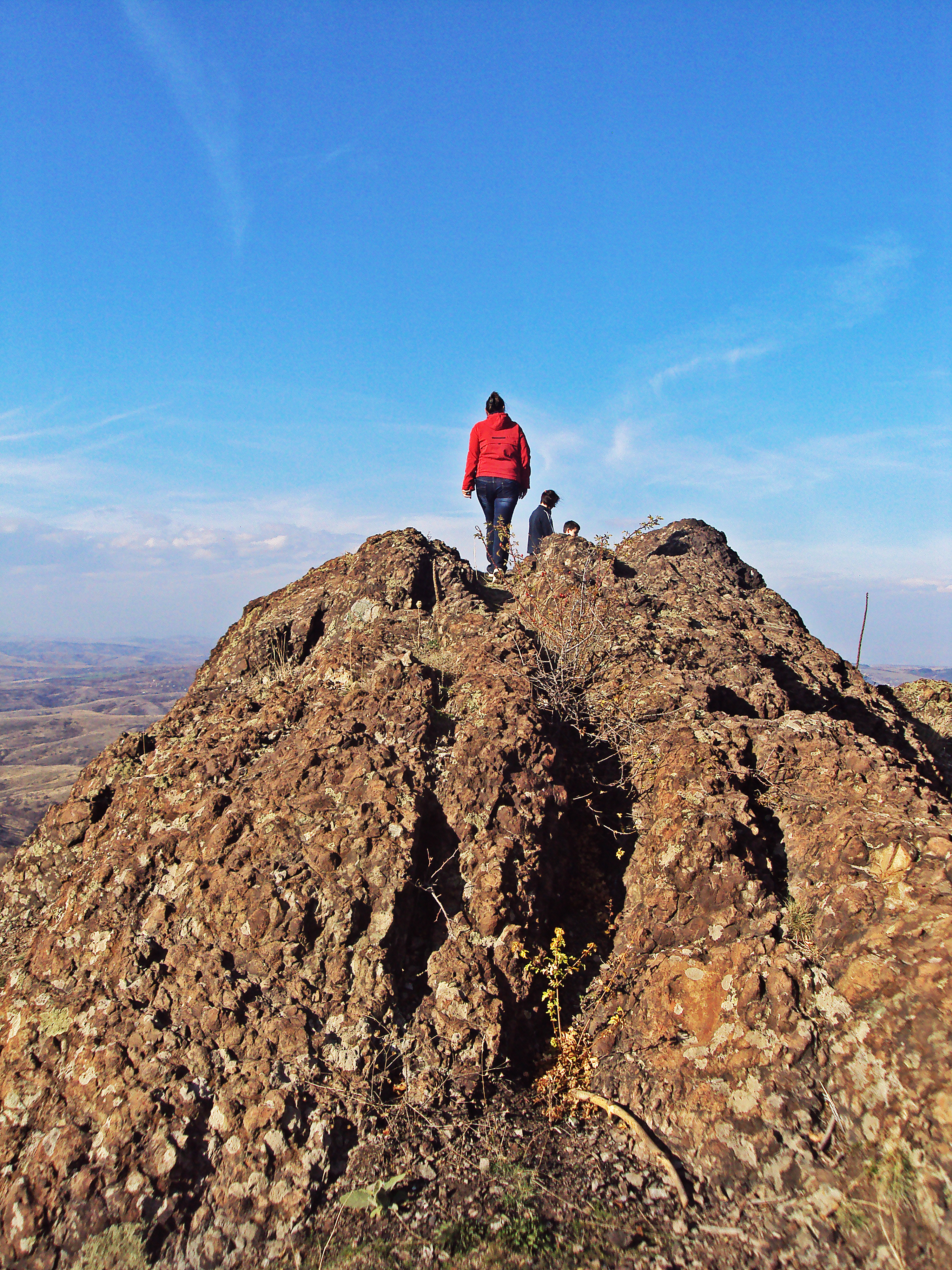 Krivi kamik peak Lyulin BG